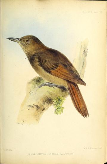 Dendrocincla anabatina, illustration by Joseph Wolf in Proceedings of the Zoological Society of London, 1859